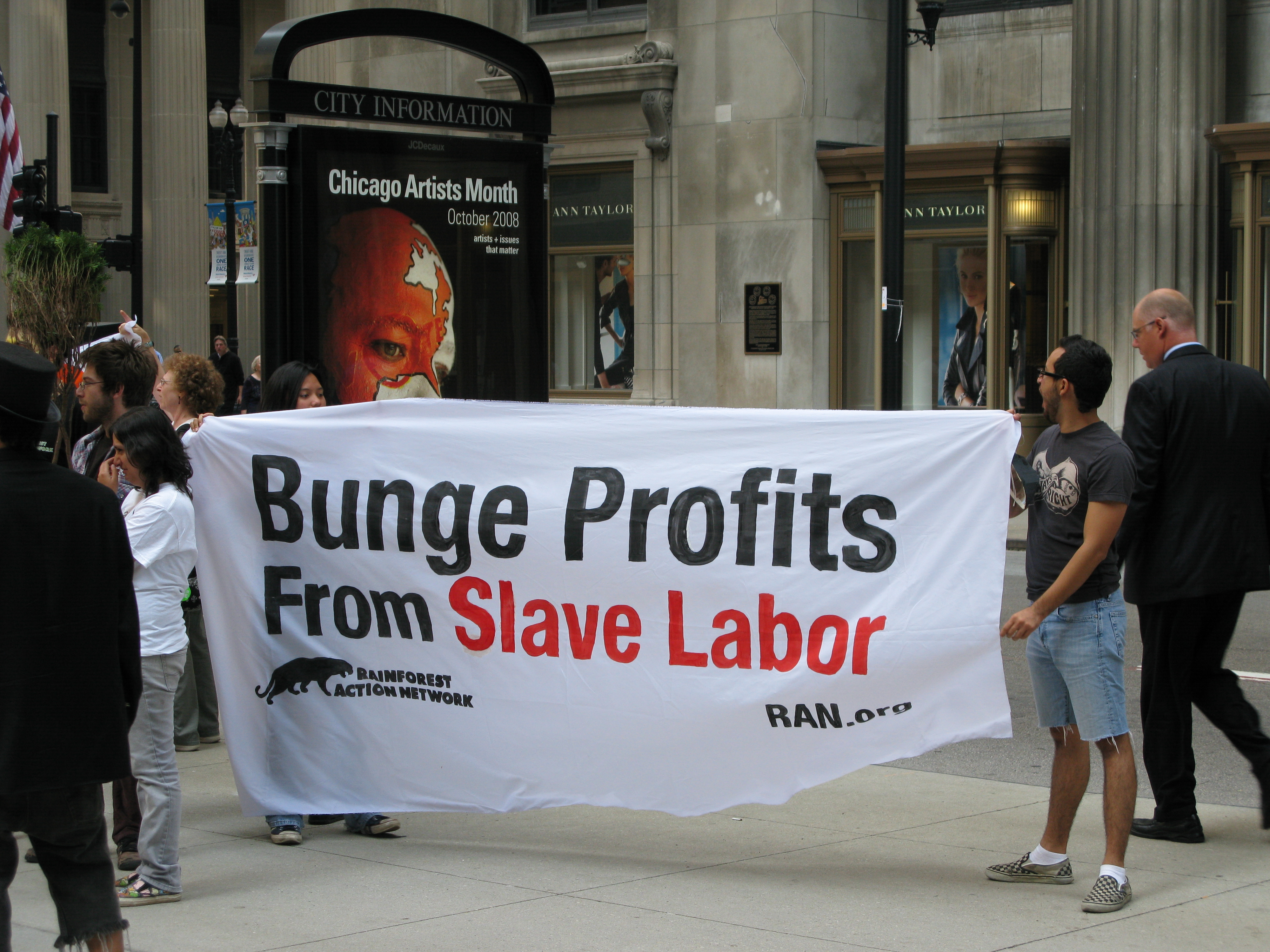 Rainforest Action Network activists, protesting the expansion of palm oil and soy plantations into critical ecosystems, near Chicago Board of Trade.